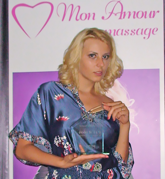 Alina Plugaru and The PIER 2009 Award